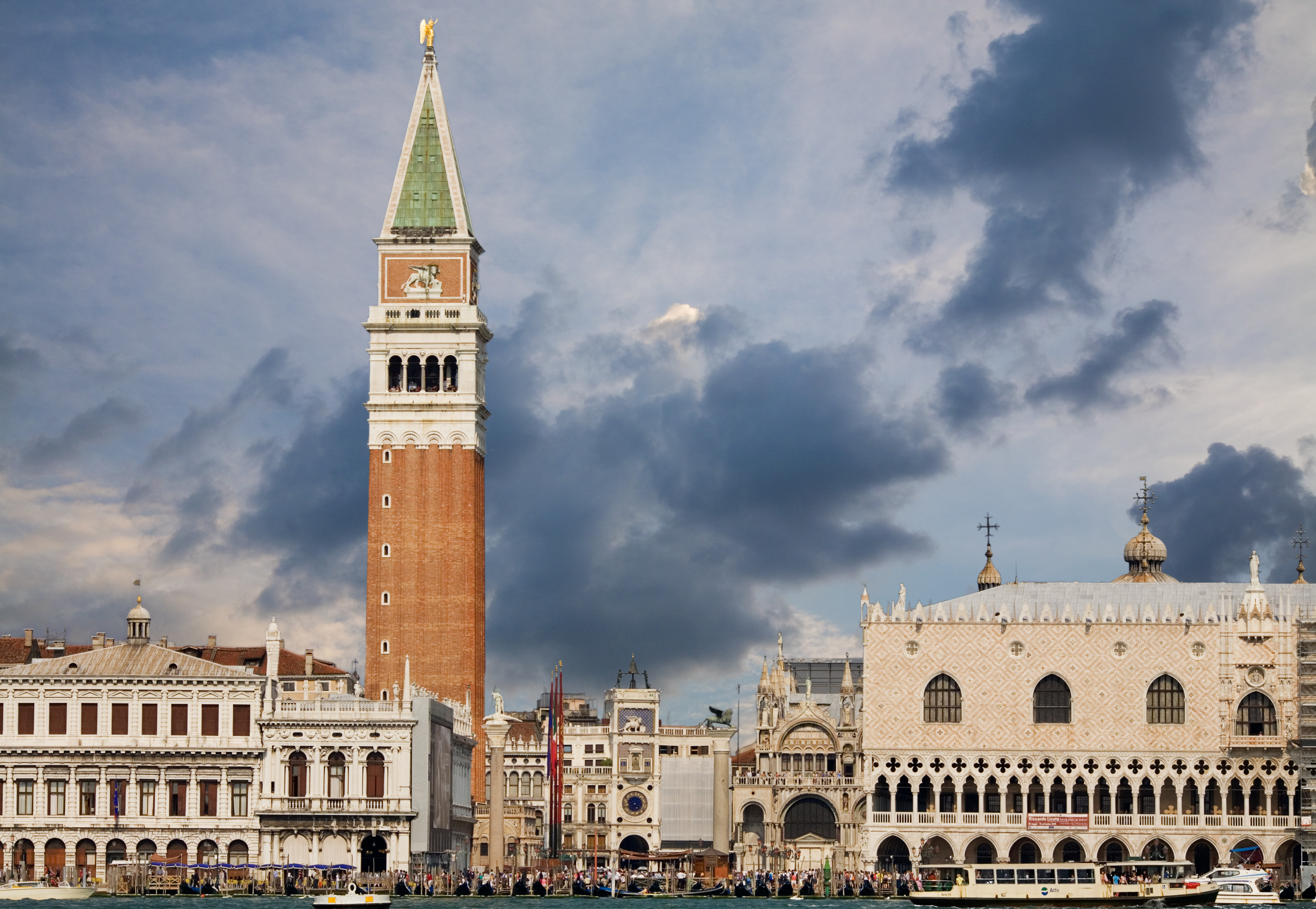 San Marco, a View from The Canale Della Giudecca, Venice, Italy 2009